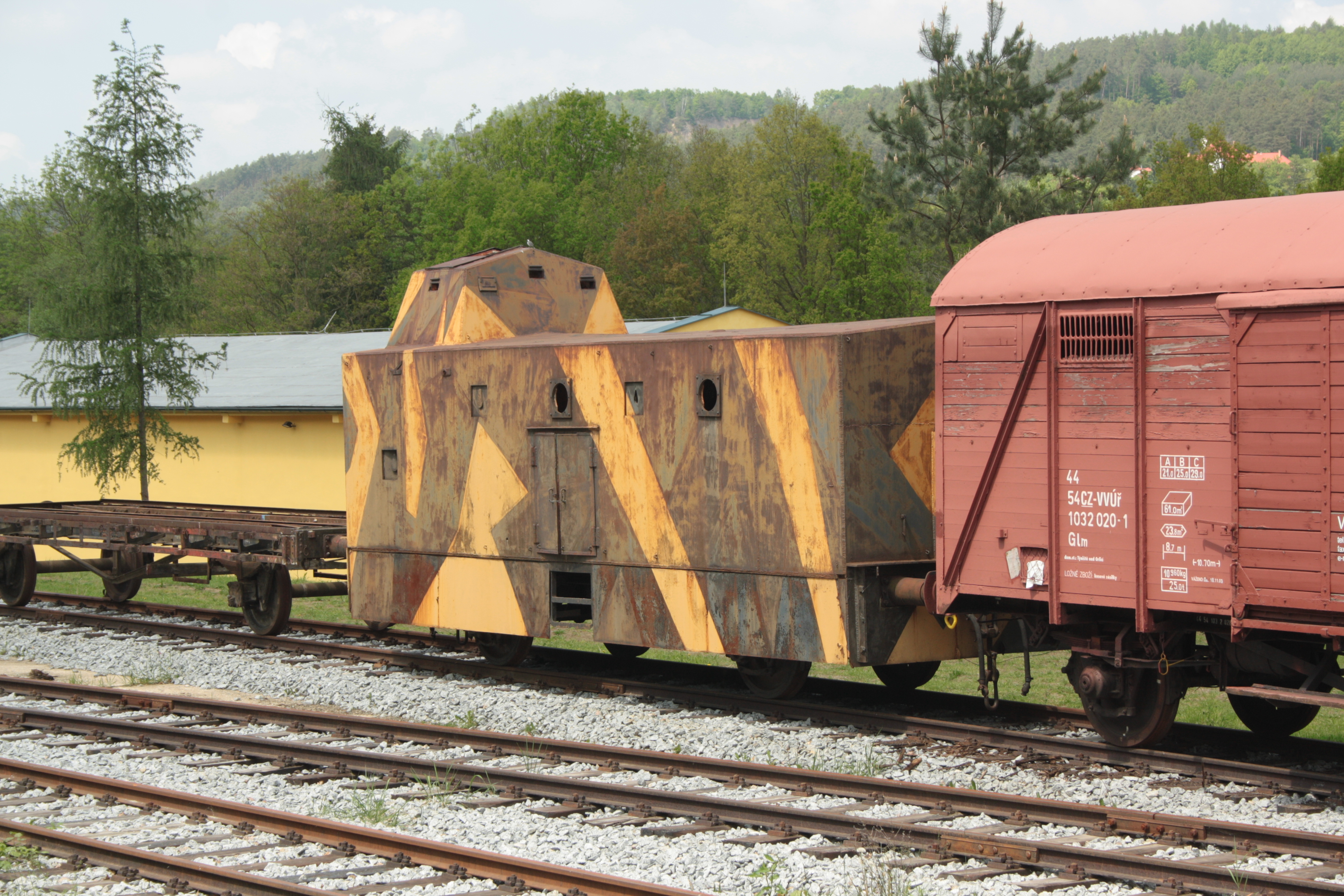 Armored railcar - part of the rail military equipment exhibition (as of 2010 not finished). Central Bohemian Region, CZ